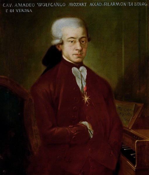 Mozart's portrait made by anonymous painter for Padre Martini in Bolognia.